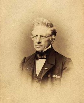 Christian Albrecht Bluhme (1794-1866), Prime Minister of Denmark